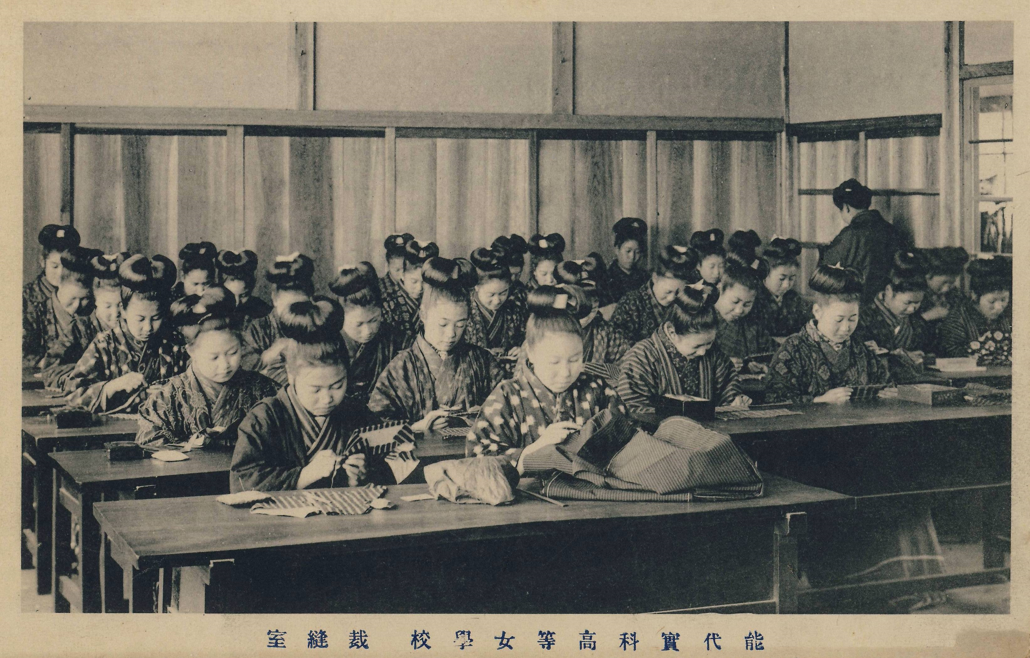 A postcard of a sewing class in Noshiro Practical Girls' High School, Noshiro, Akita Prefecture, Japan.